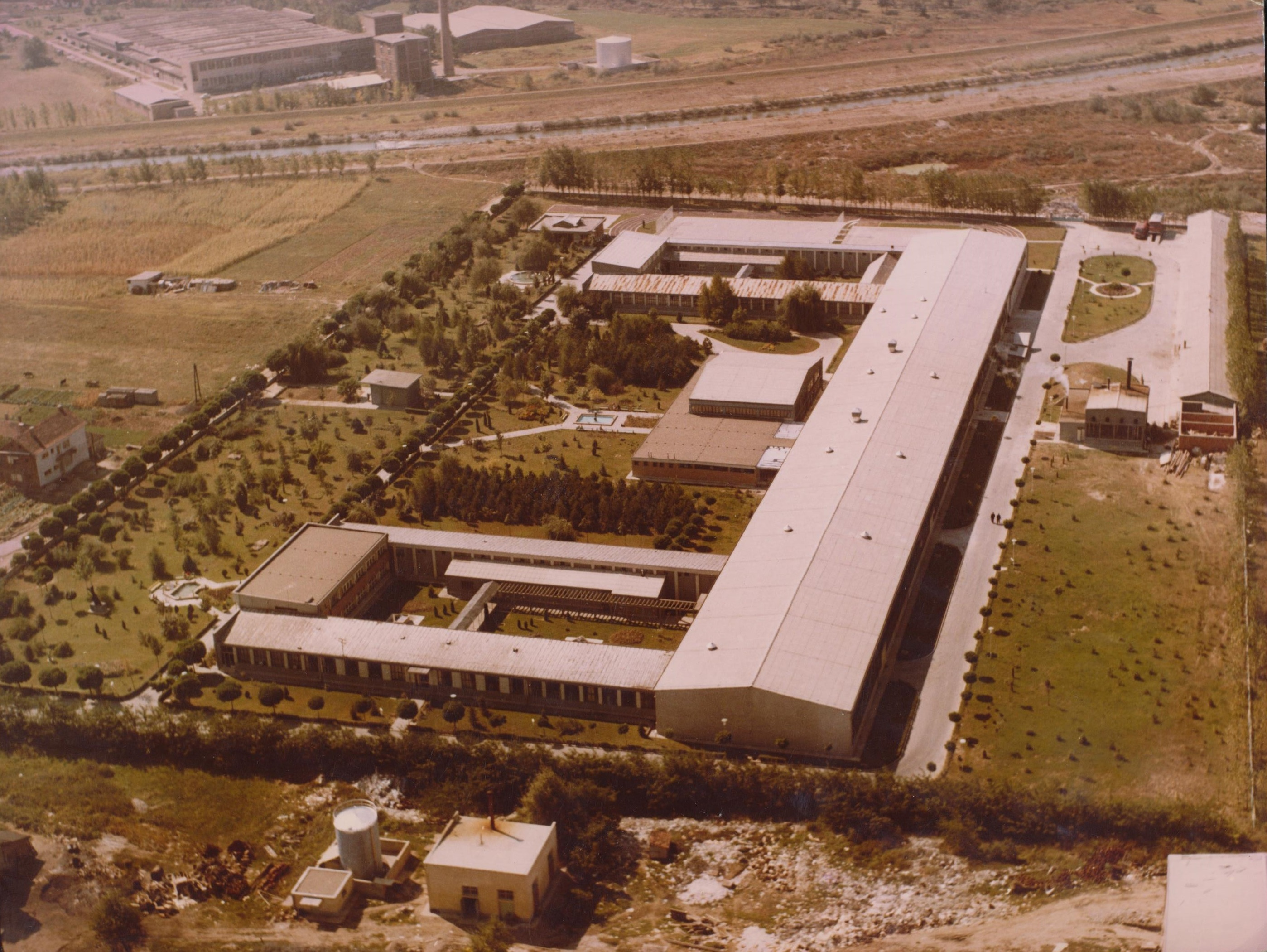 Firm complex Prvi maj Pirot